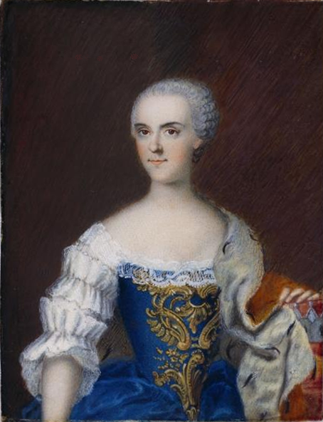 Maria Isabella, Prinzessin von Parma